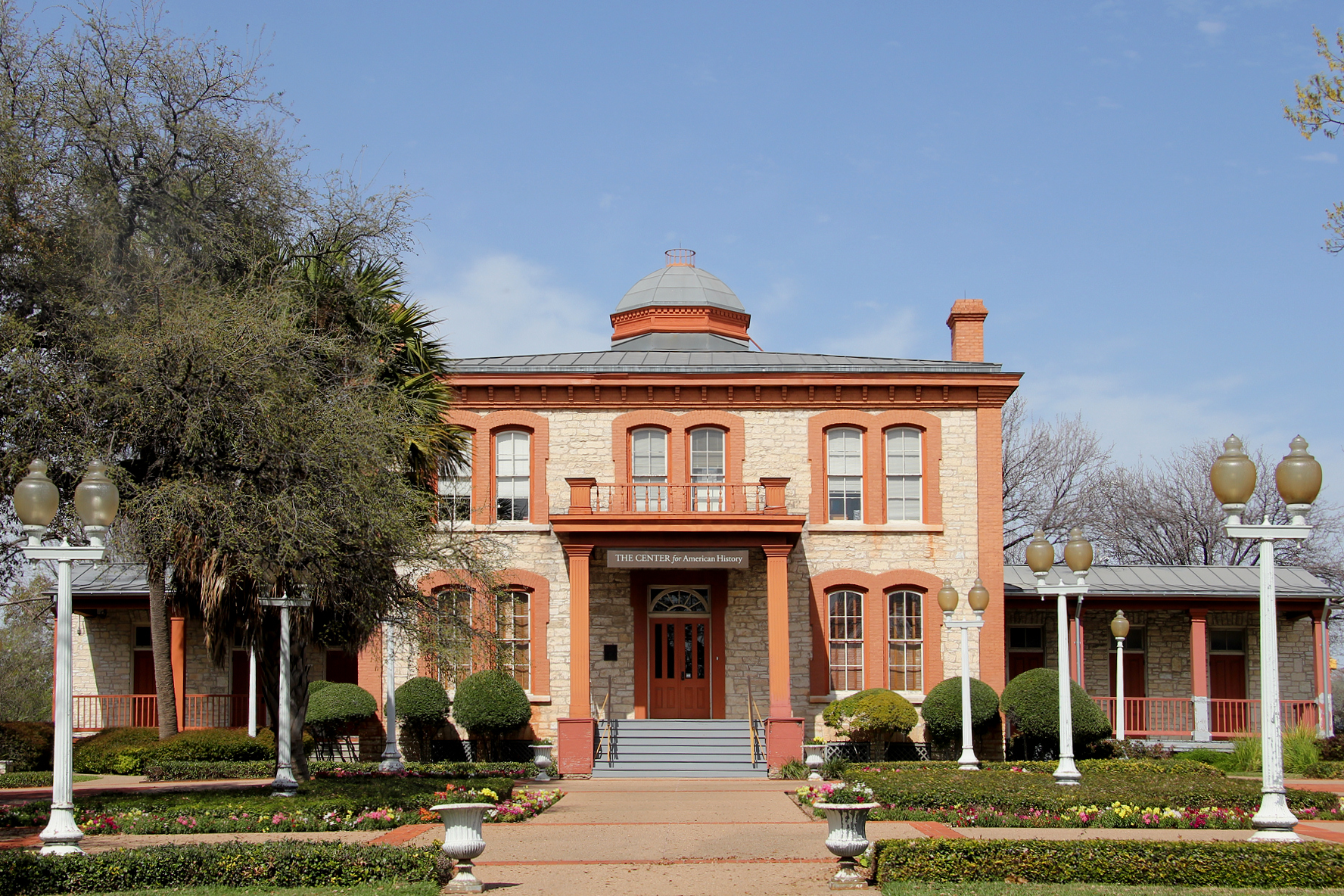 The entrance to the Arno Nowotny Building, which houses the Office of the Director of the Dolph Briscoe Center for American History. The building is the oldest building on the campus of the University of Texas at Austin in Austin, Texas, United States.